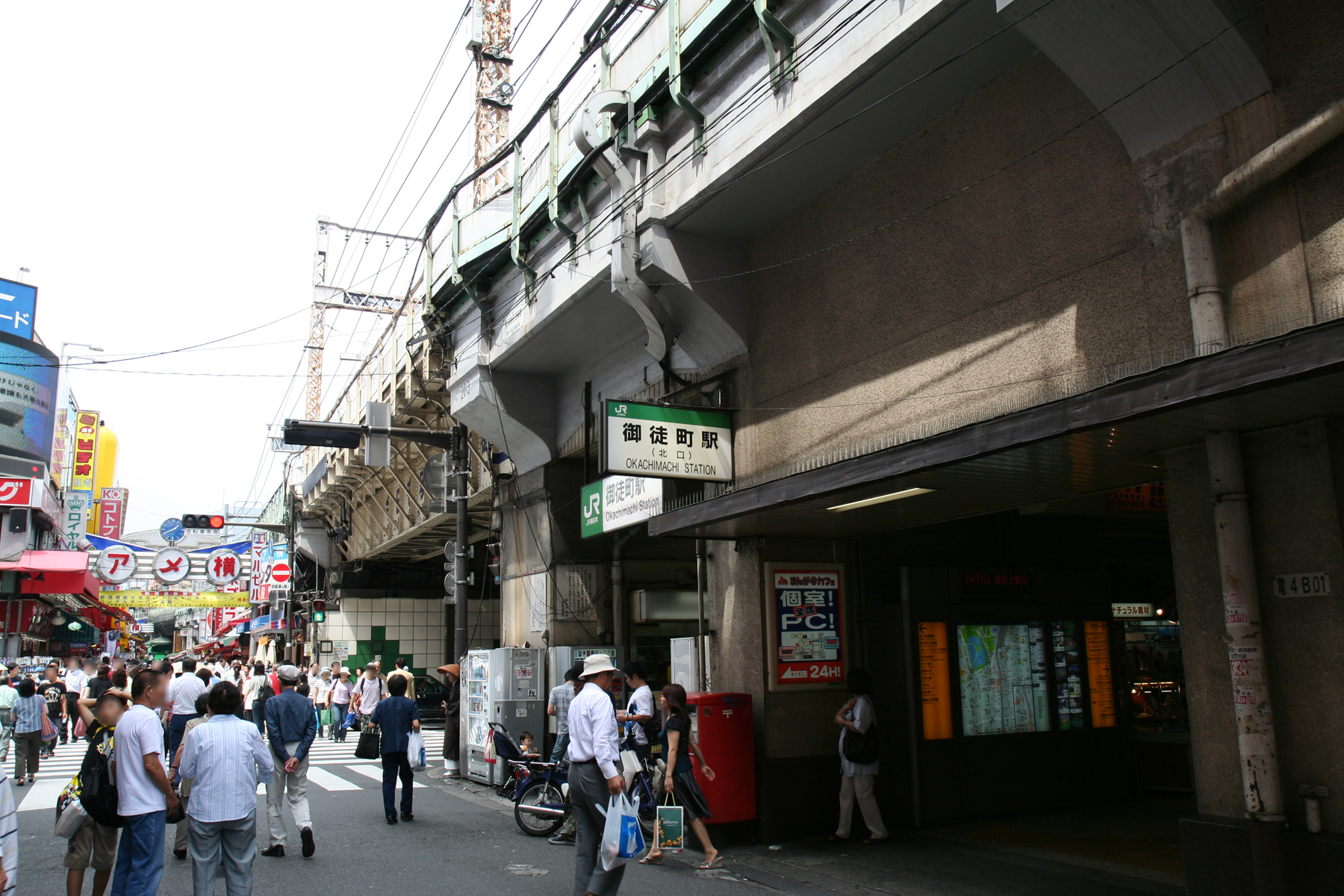 JRE Okachimachi Station north exit in Taito, Tokyo.